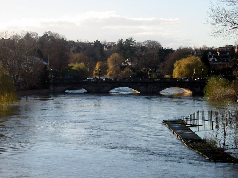 The Welsh Bridge in Shrewsbury, Shropshire. Photo taken by Chris Bayley using a Canon Powershot A20. The river is at flood level.